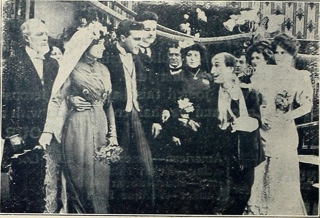 A surviving film still from Bertie's Brainstorm. Showing the climax of the film.